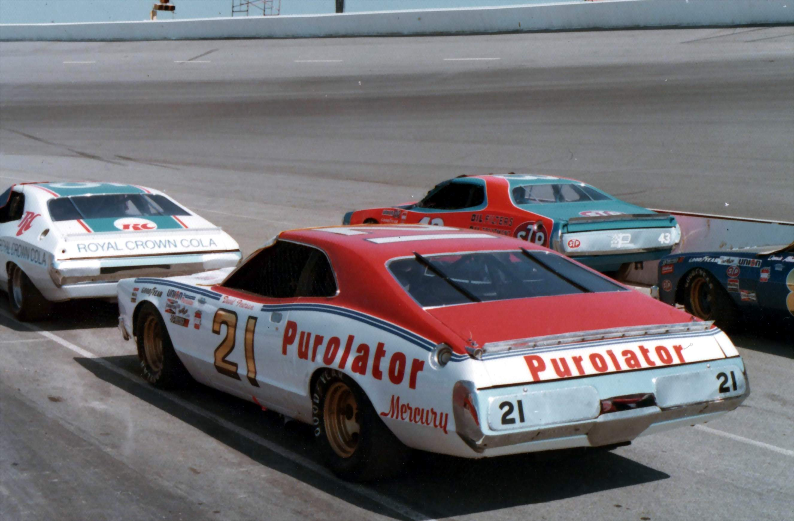 The #21 Wood Brothers Mercury driven my David Pearson on pit lane.